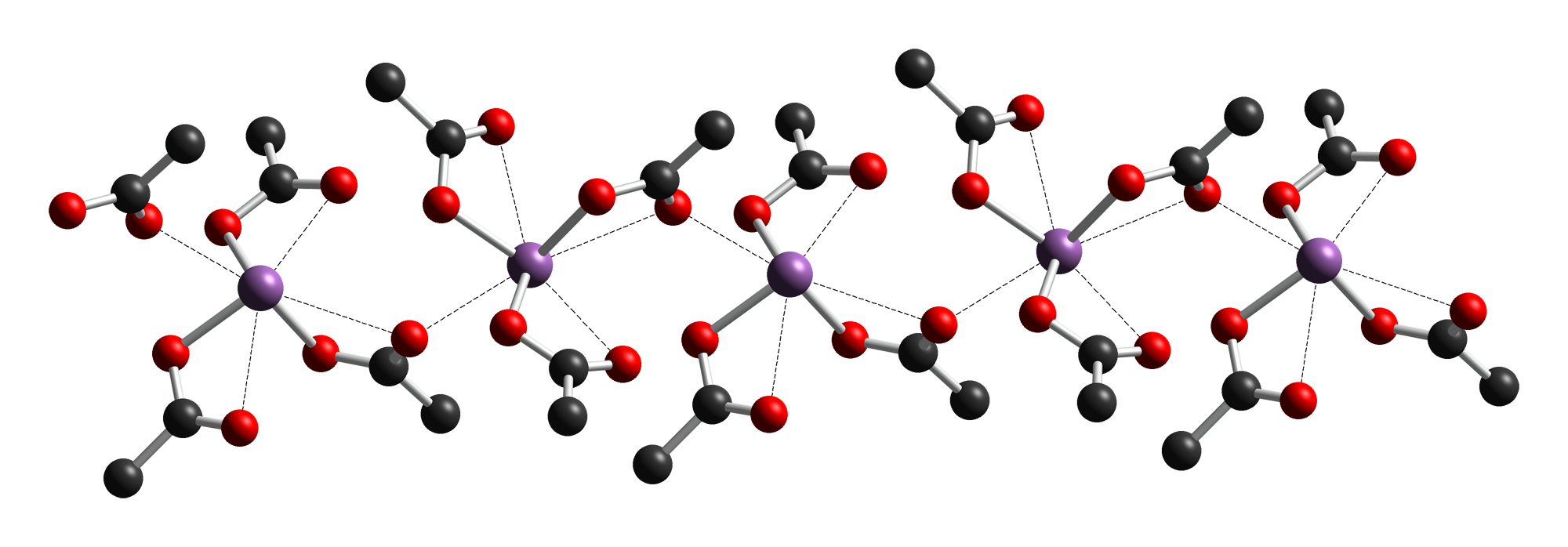 Ball-and-stick model of part of the crystal structure of antimony(III) acetate, Sb(OAc)3, i.e. Sb(O2CCH3)3. Hydrogen atoms have been omitted because their positions were not determined in the crystallographic study the image is based on. Colour code: Carbon, C: grey-black Oxygen, O: red Antimony, Sb: purple Crystal structure from J. Chem. Soc., Dalton Trans. (1980) 1292-1296. Image generated in CrystalMaker 8.3.